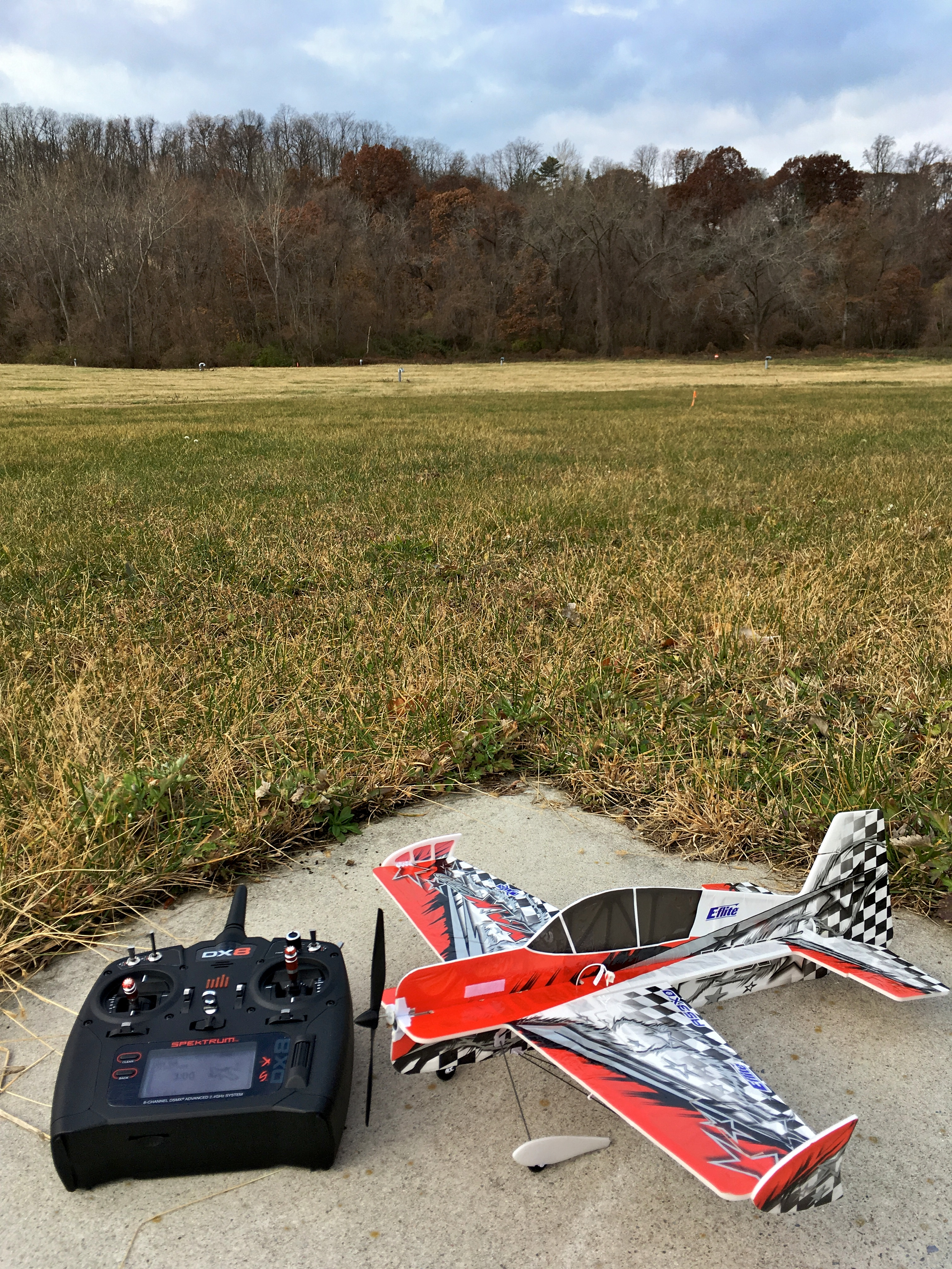 E-flite UMX Yak 54 3D, a micro radio-controlled airplane, next to a Spektrum DX8 radio for size comparison, at the HHAMS Aerodrome.